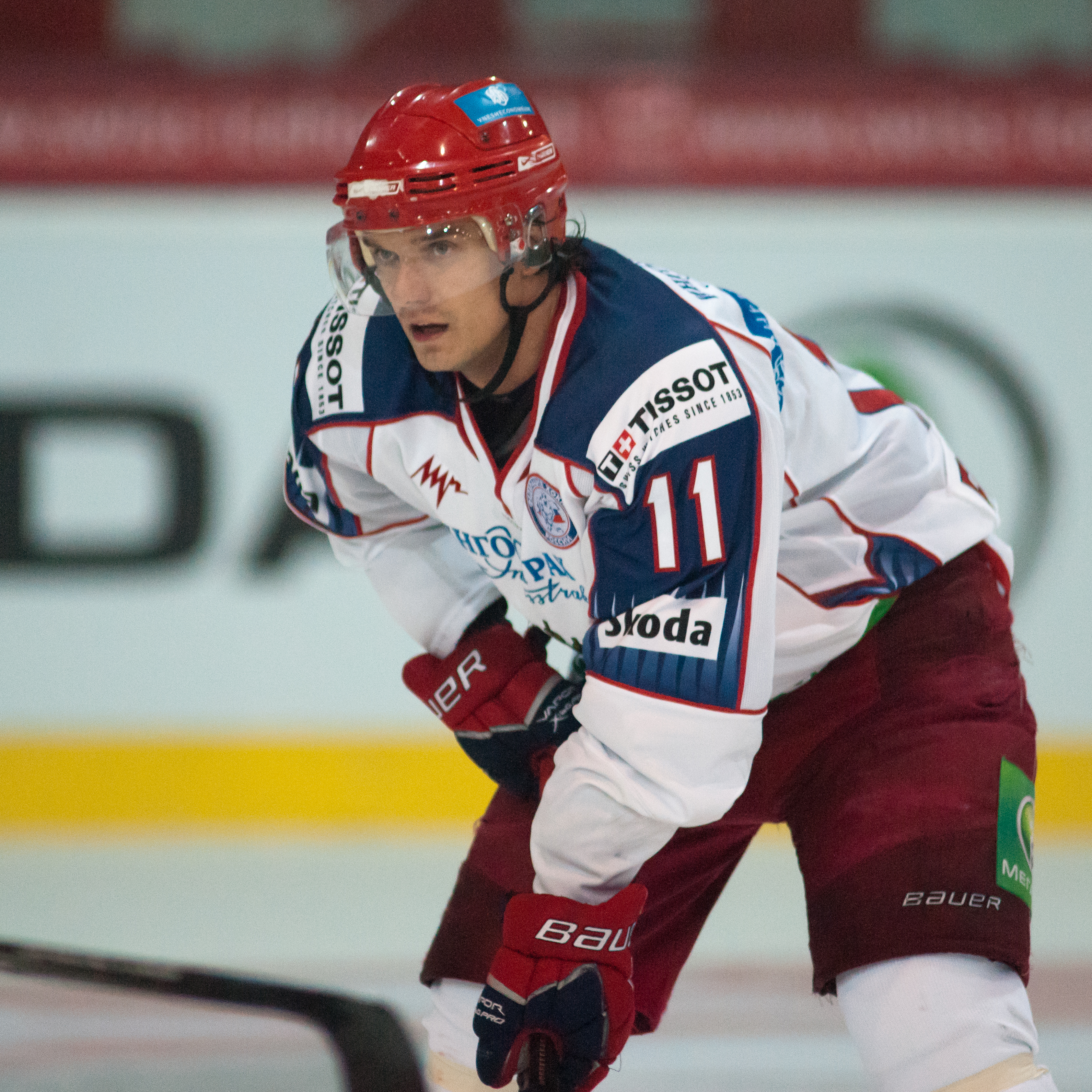 Russian ice hockey player Denis Parshin during a Switzerland v. Russia match.